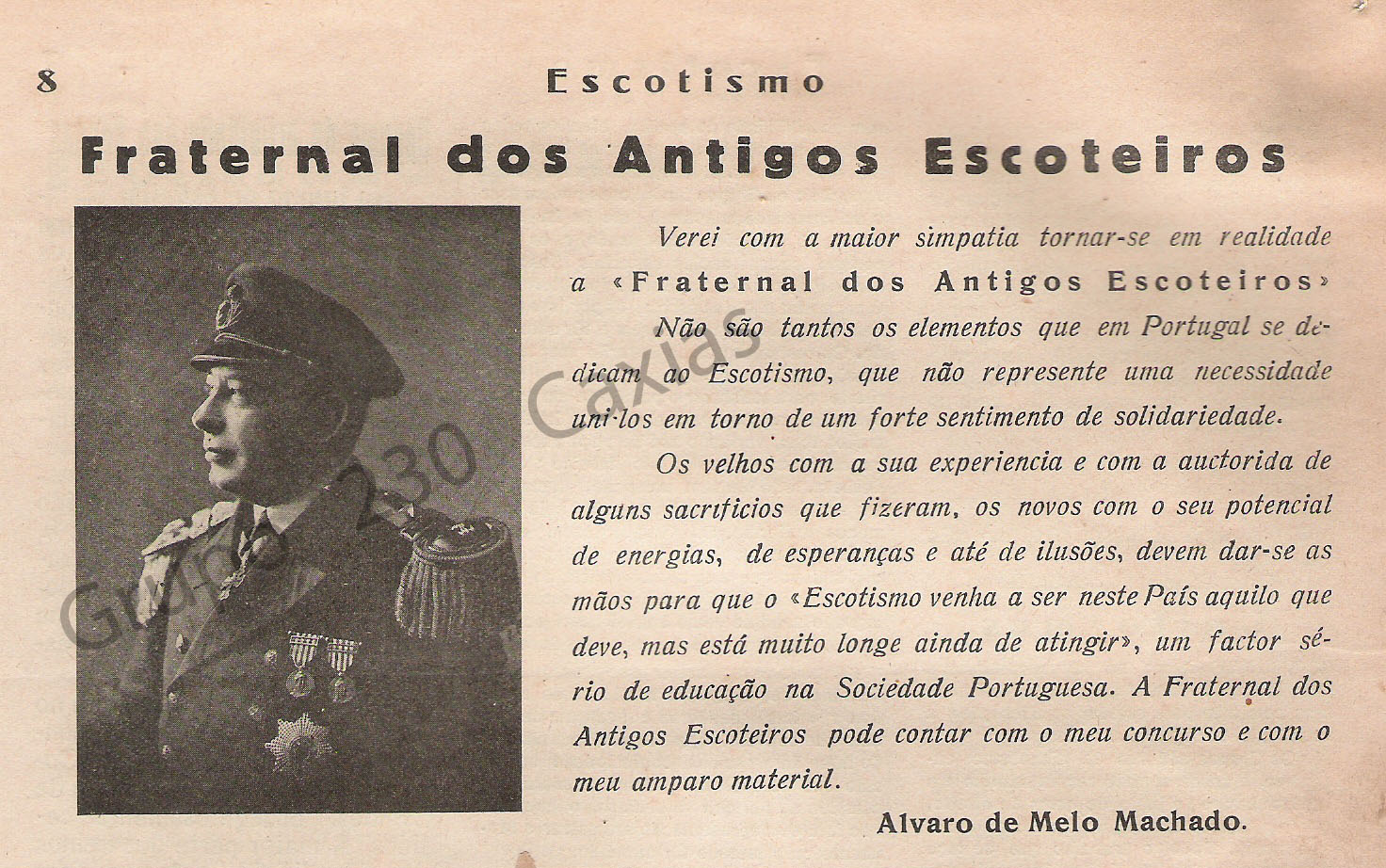 Portuguese Scout Fellowship Foundation - Álvaro de Melo Machado